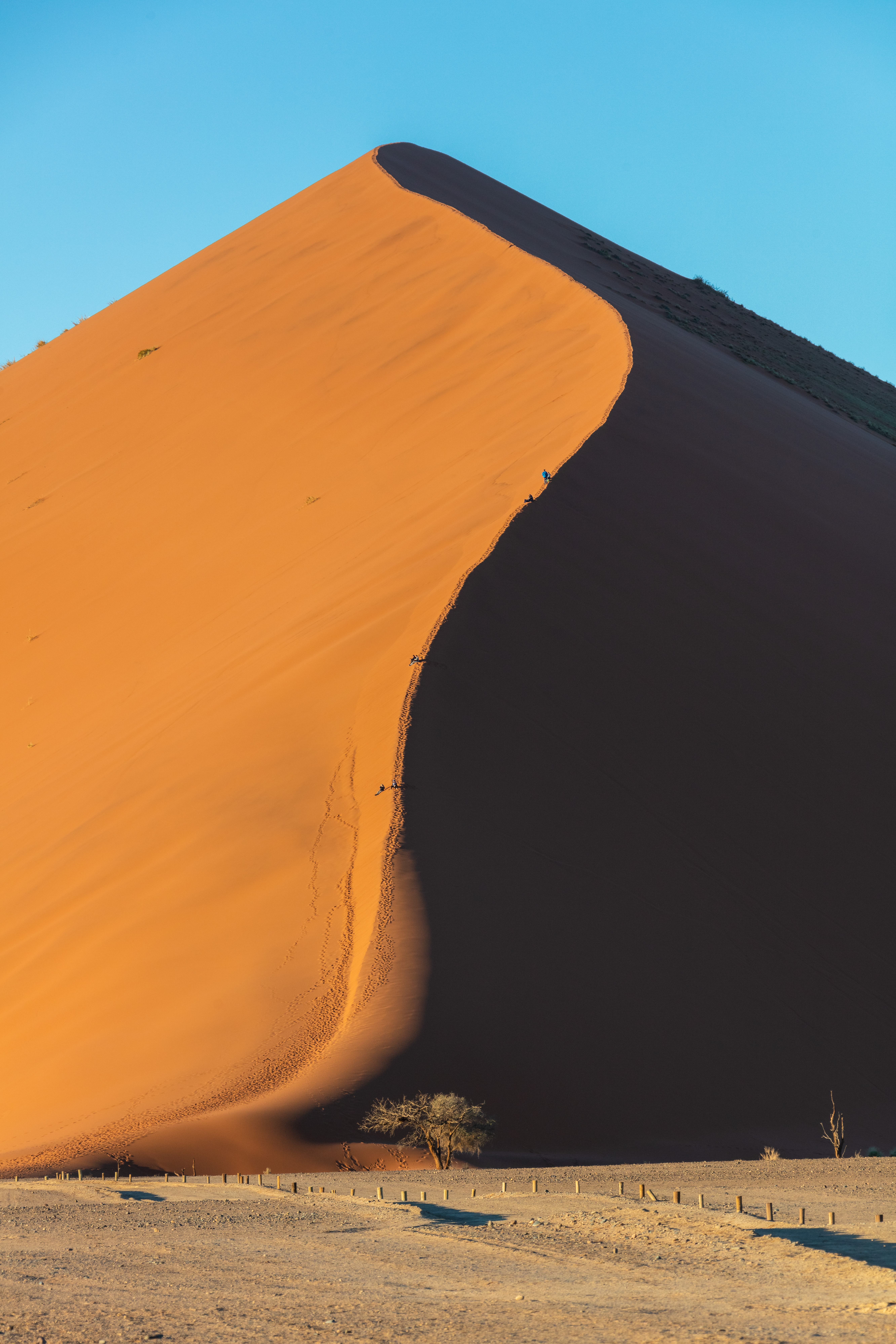 Dune in Sossusvlei, Namibia